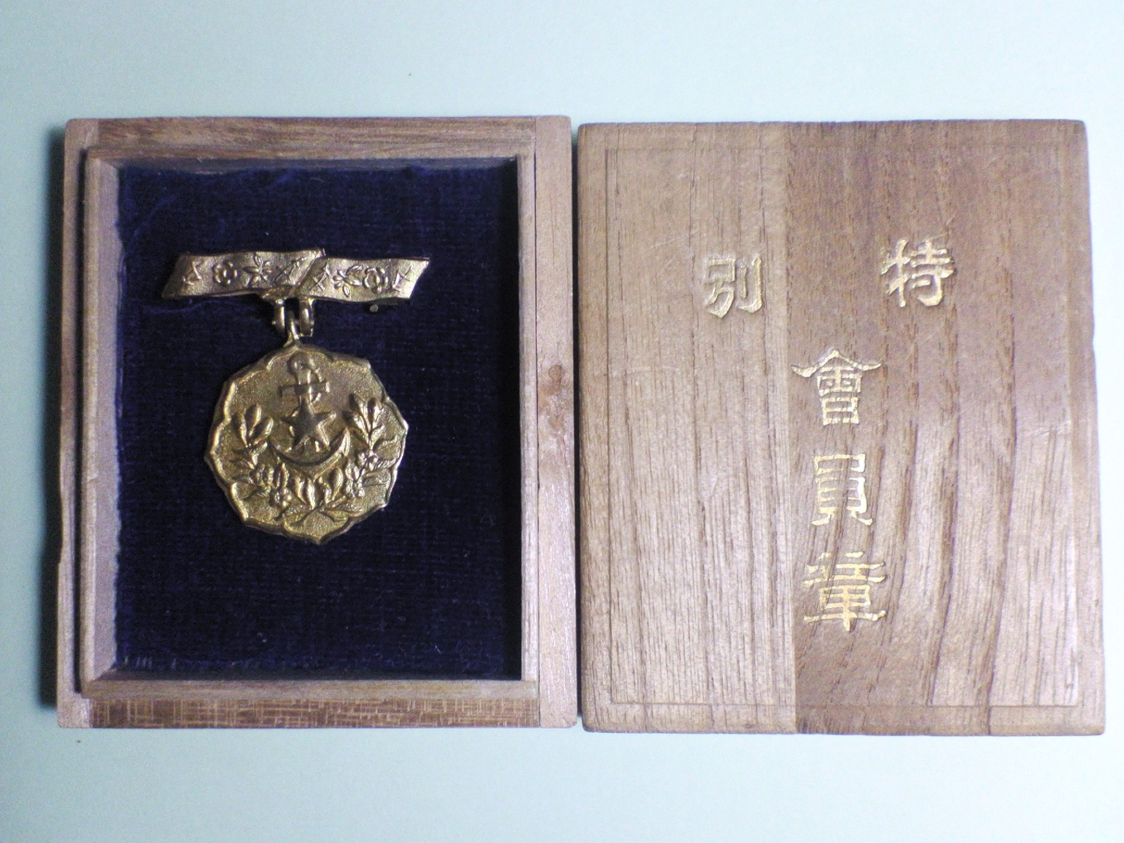 Patriotic Womens Association. Special member badge.